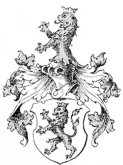 coats of arms of the Barons of Kaltenbach